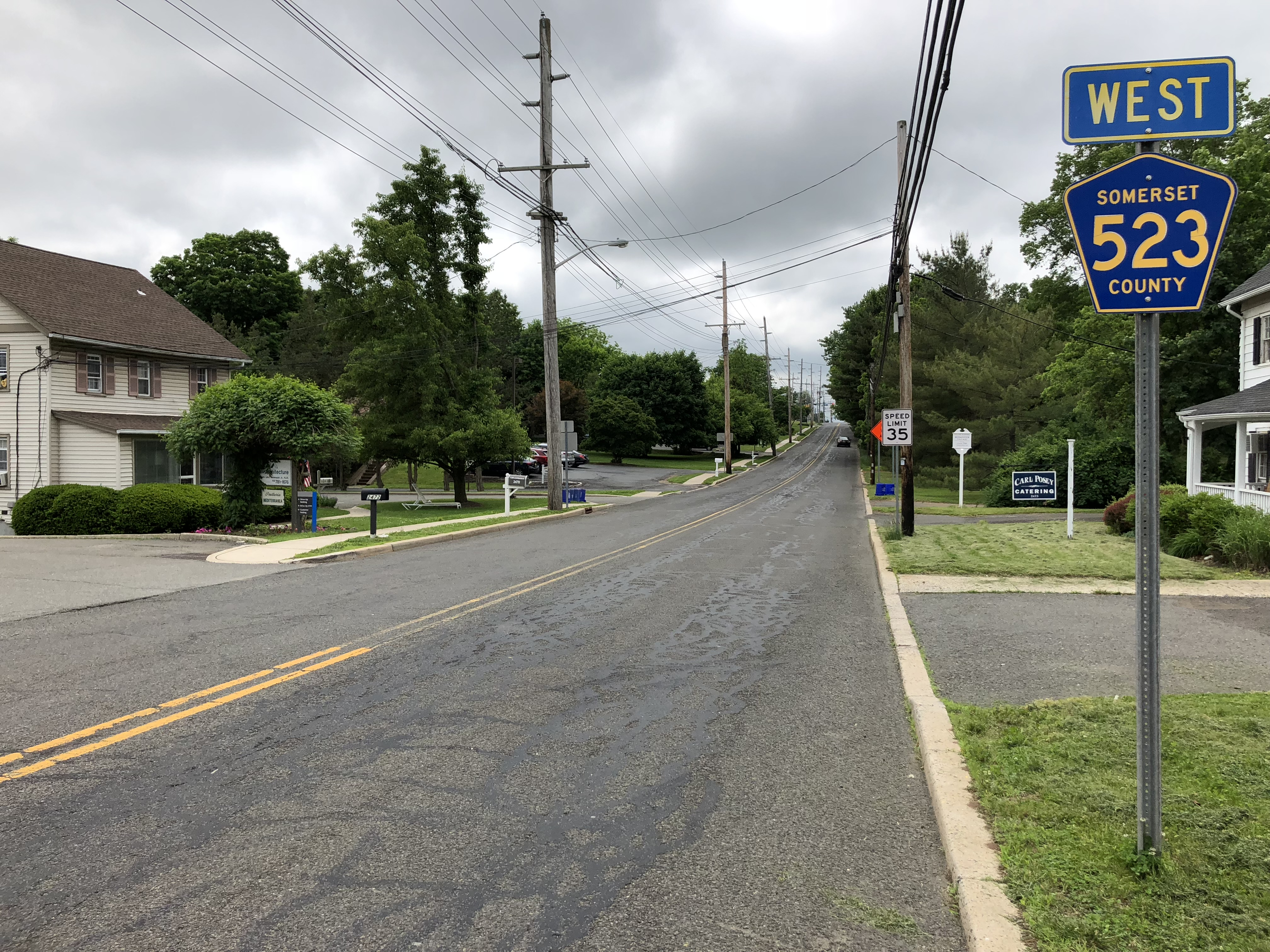 View west along Somerset County Route 523 (Lamington Road) at U.S. Route 202 (Somerville Road) in Bedminster Township, Somerset County, New Jersey